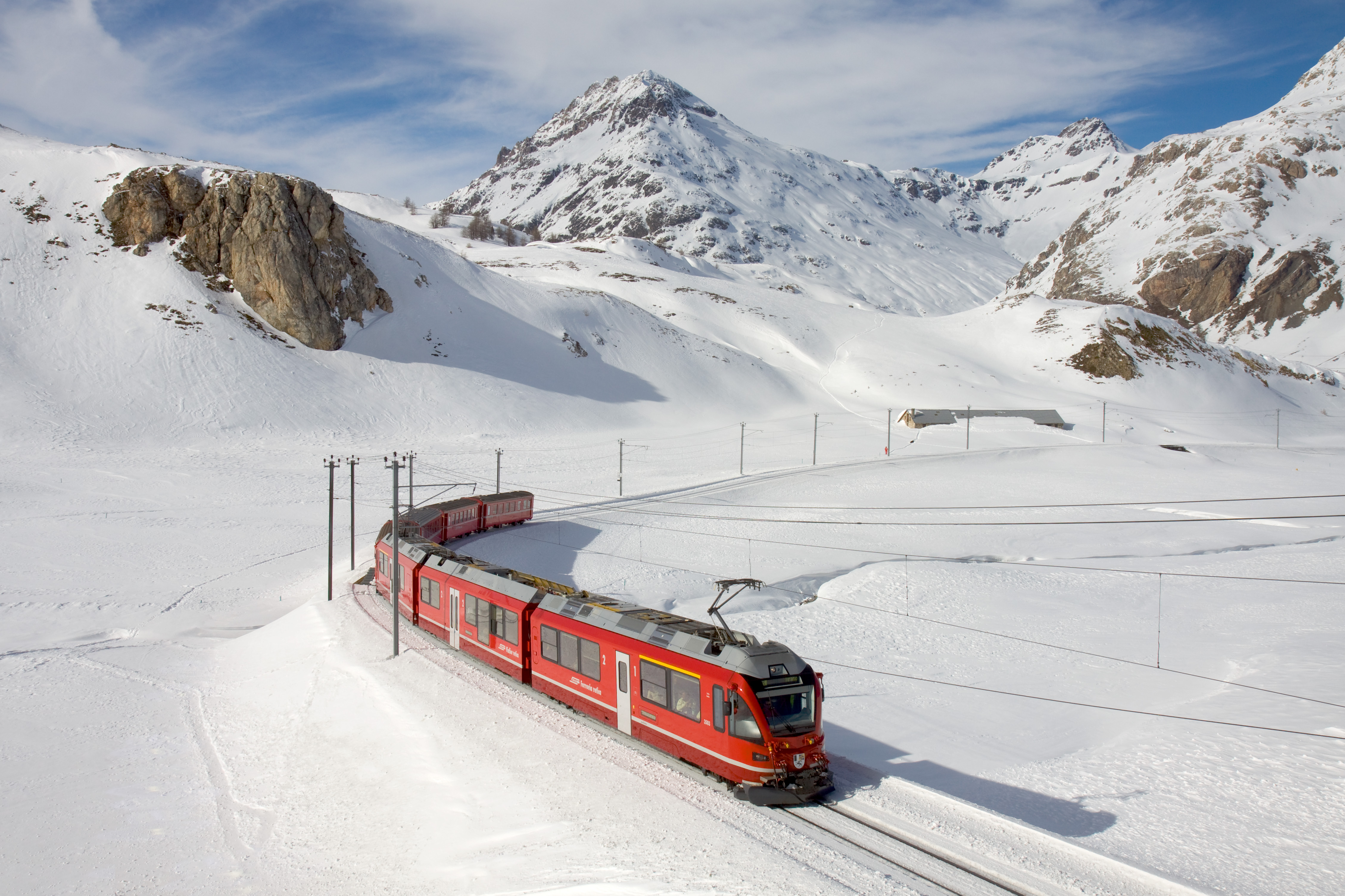 RhB ABe 8/12 "Allegra" multiple unit with a local train to Tirano in the grade between Bernina Lagalb and Ospizio Bernina.